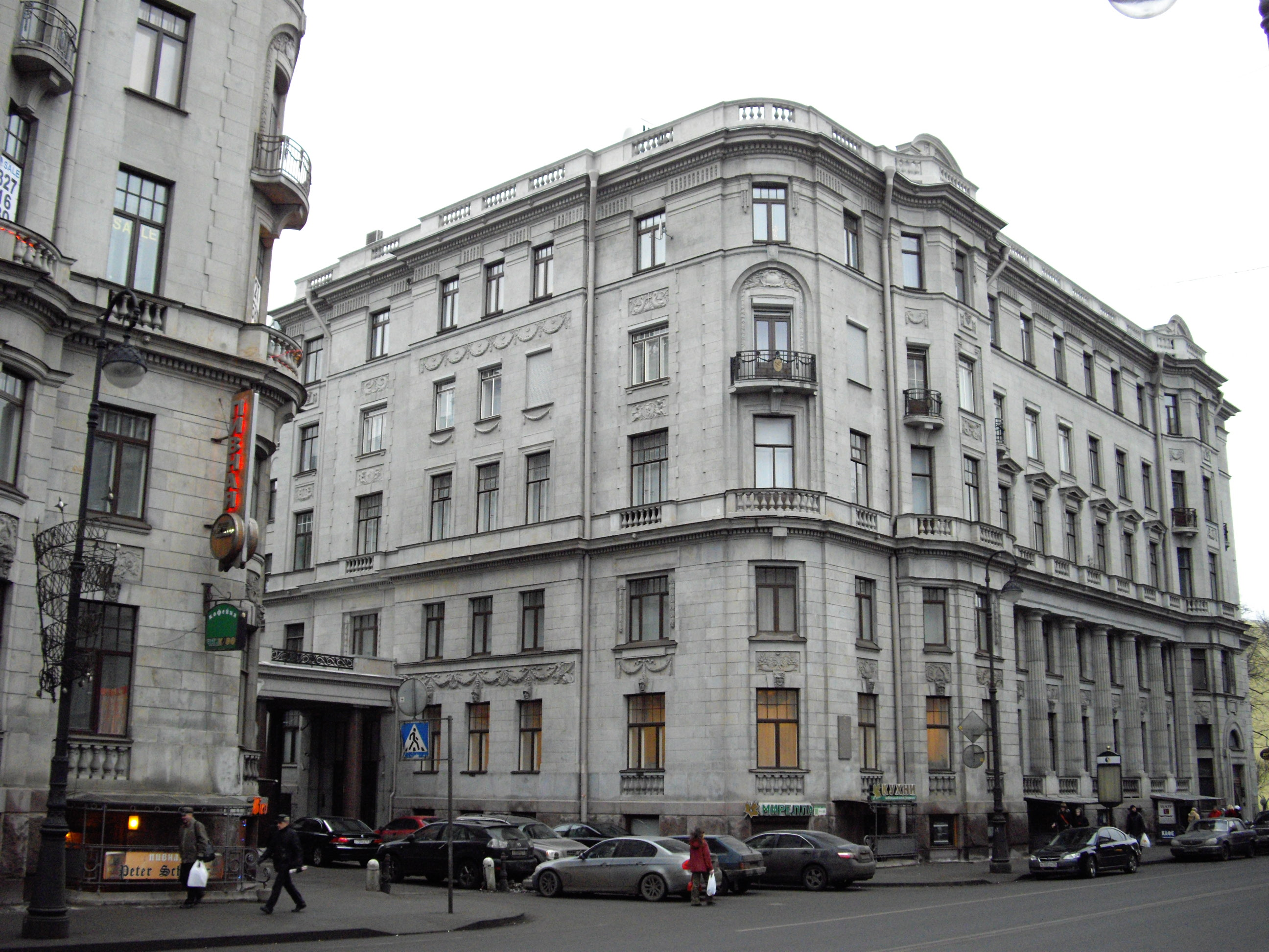 26-28, Kamennoostrovsky av.: "Benois House", Saint-Petersburg, Russia. Architects Leon Benois, Albert Benois, and Jule Benois, 1912.